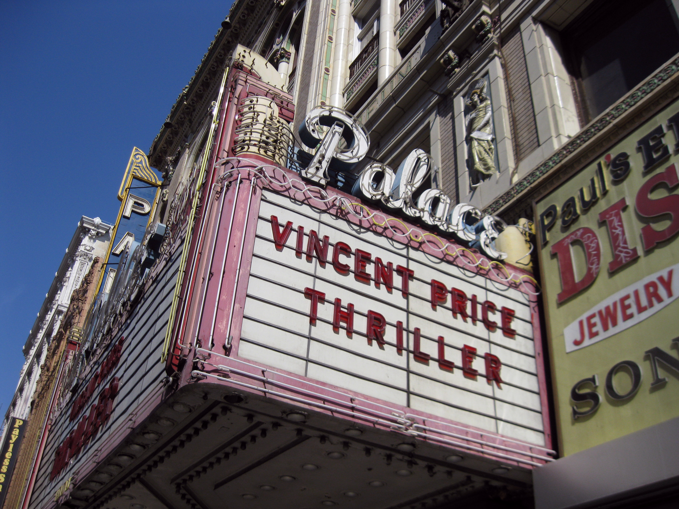 Phony marquee for the Michael Jackson necro-fest at Downtown Palace, Los Angeles. This is the movie theater used in the video Thriller.